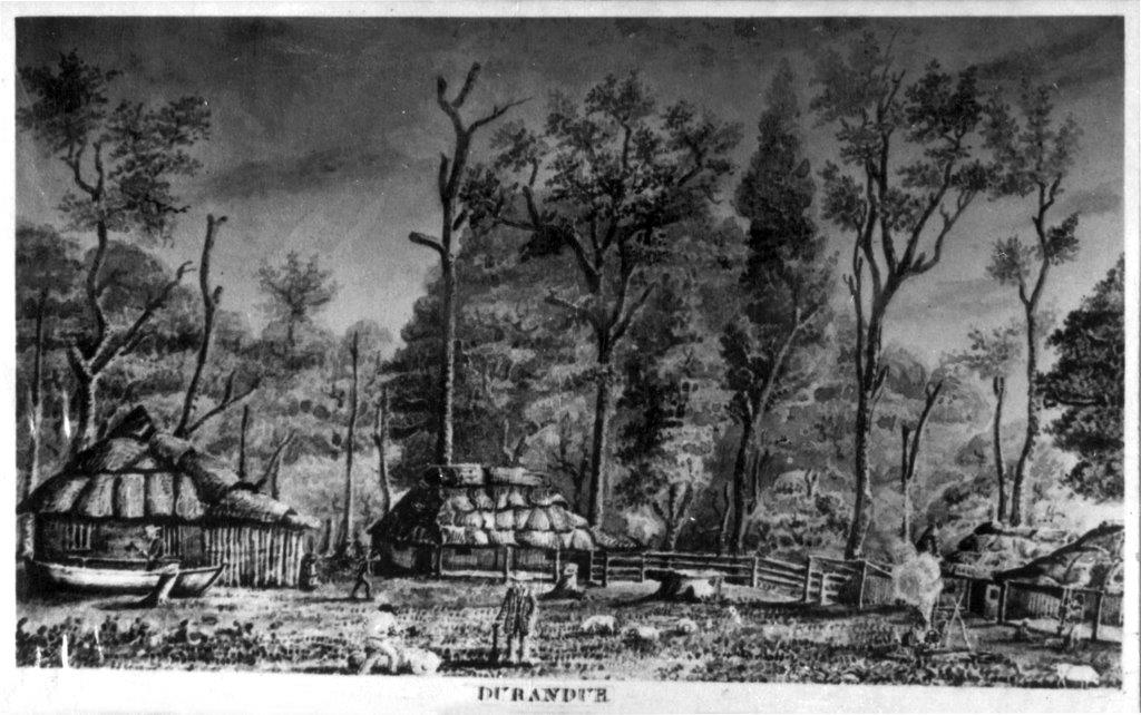 Sketch of Durundur Station by Charles Archer, 31 July 1843